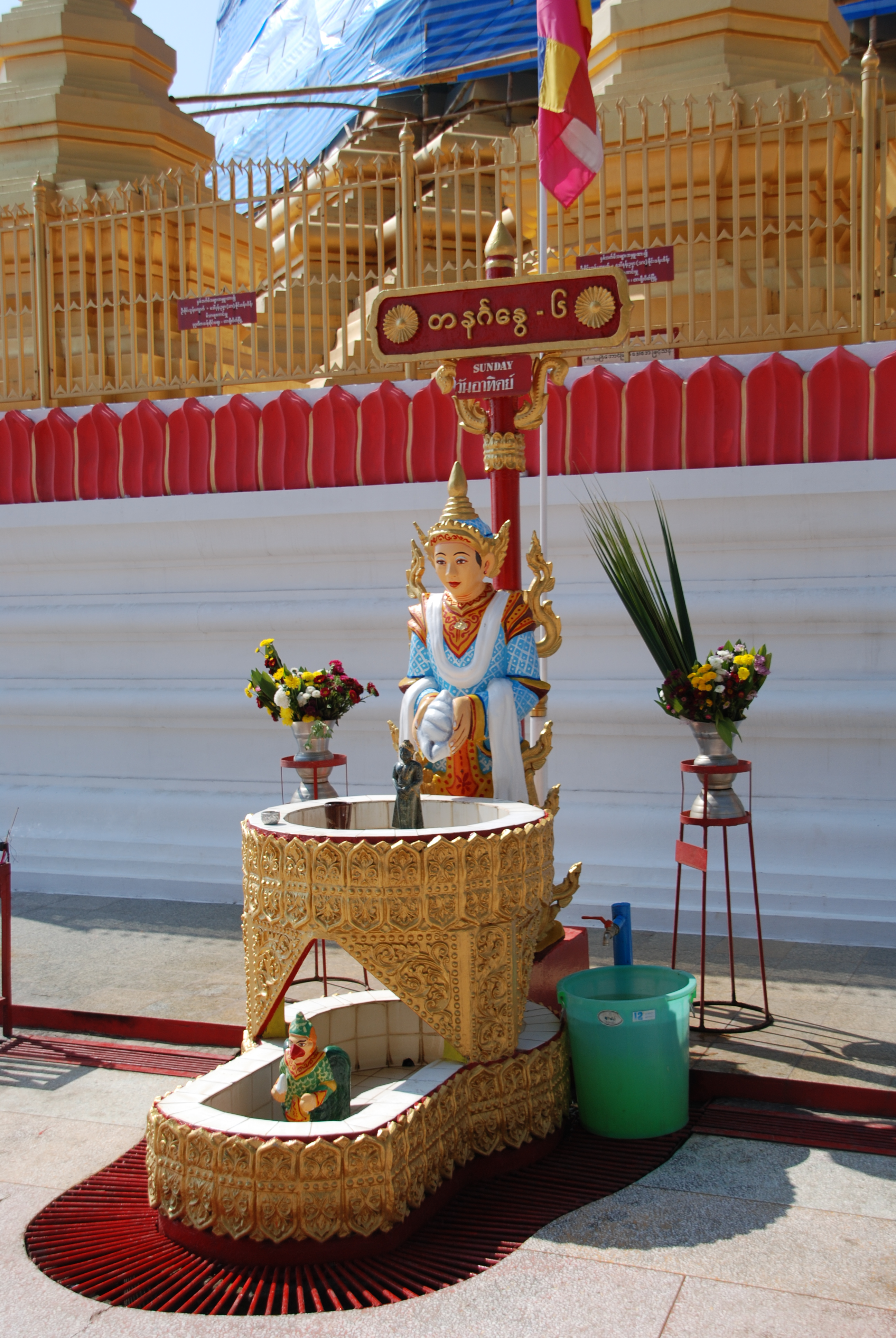 Sunday planetary post, Tachileik pagoda, Myanmar မြန်မာဘာသာ: တနင်္ဂနွေဂြိုဟ်တိုင်၊ တာချီလိတ်မြို့၊ မြန်မာနိုင်ငံ